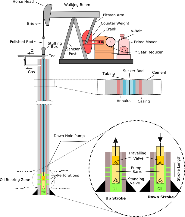 A labelled version of the pump jack diagram. There are blown up bubbles for the downhole pump and a cross section of the borehole (showing the casing, tubing, sucker rods and annulus). I made it with Inkscape. It is in png format because the SVG version was not showing the labels properly, if you think you can fix this, you can label the unlabeled version (see below), it is in SVG.